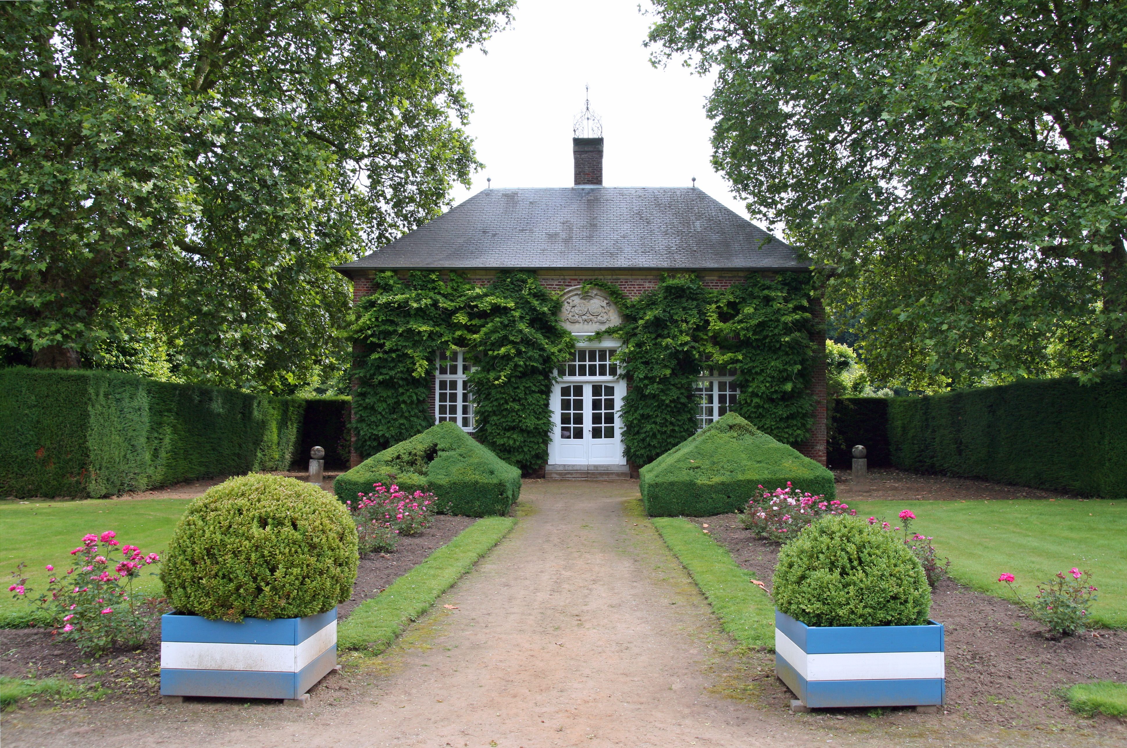 Orangery of Hillenraad Castle